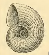 Vitrinella ponceliana de Folin, 1867; family Tornidae